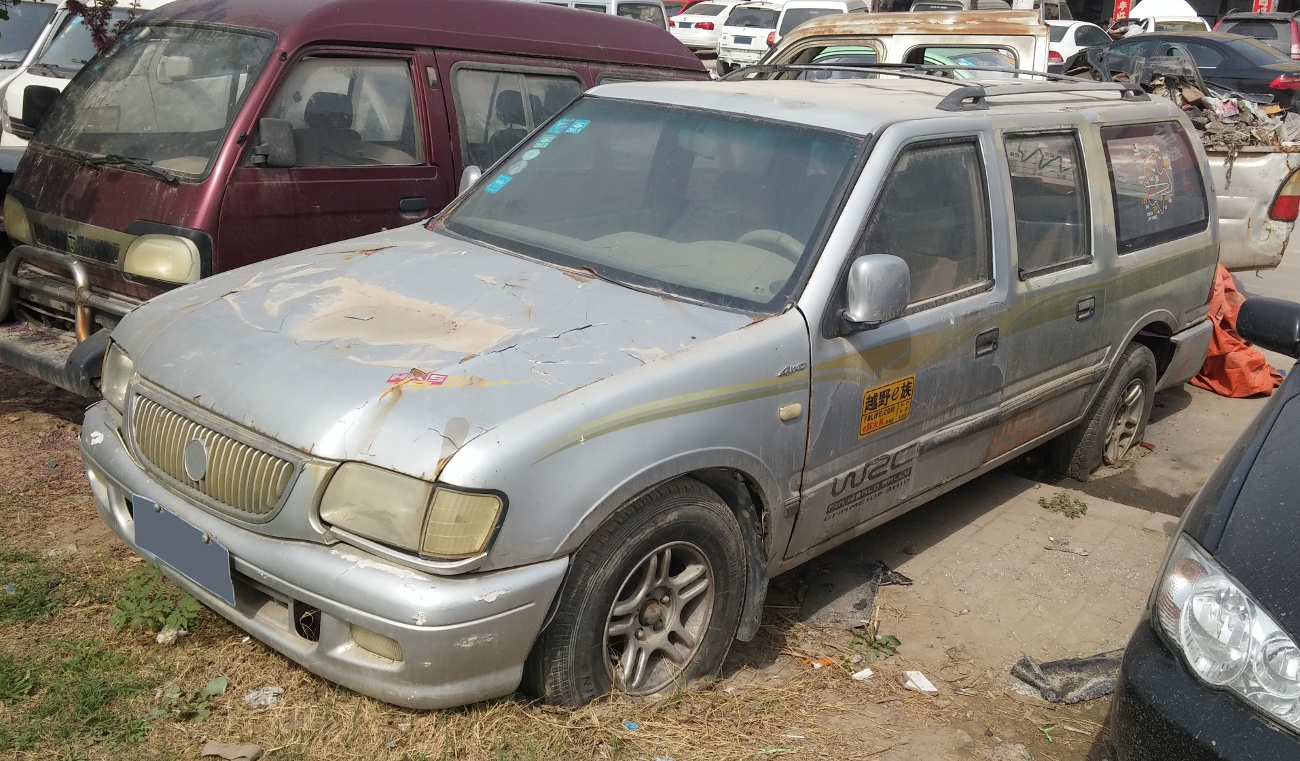 Wanfeng Suwei SHK6520 photographed in Zhengzhou, Henan province, China.